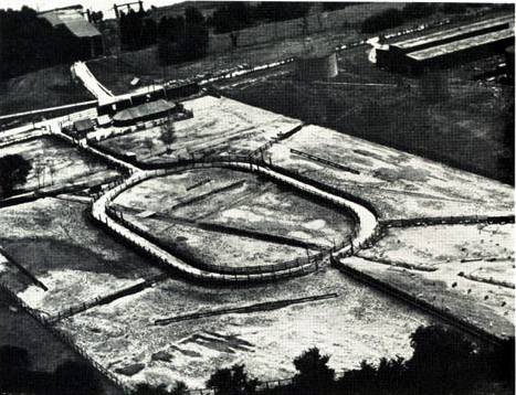 "Aerial view of Animal Remount Station, Camp Plauche, New Orleans, La. 1944. The loading wharf is shown in the upper left corner." Photo of World War II U.S. Army training and staging facility at Harahan, Louisiana, upriver from New Orleans.